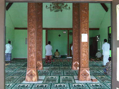 Interior view of the Ki Ageng Pandanaran Mosque in Semarang, Indonesia